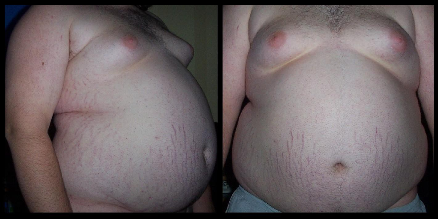 Self Made Picture of an Obese Teenager (Myself) (146kg/322lb) with Central Obesity, Front View. Feel Free to use.